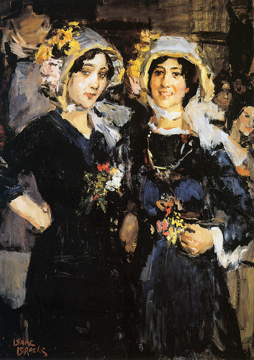 Two-women-Chatherinettes-Paris-Sun